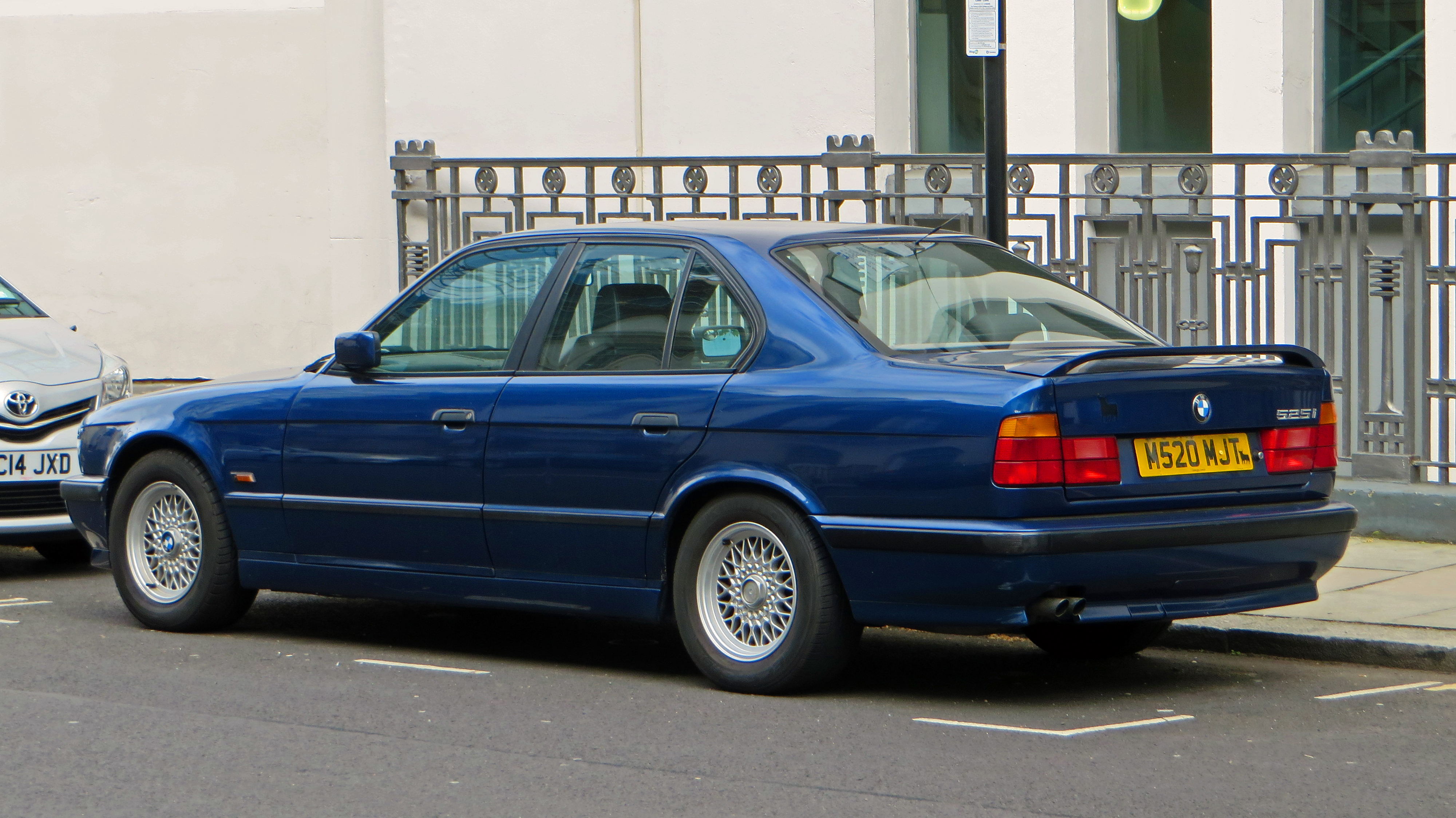 1995 BMW 525i Sport - another E34 in the same street All official UK Sport models came factory fitted with aerodynamic M Technic body styling consisting of front and rear bumpers, side skirts and M Technic rear boot spoiler. In addition to this they also came factory fitted with the following standard equipment - cloth or leather BMW sports seats - leather trim was a £1079 optional extra, M Technic I or II steering wheel, limited-slip differential, 30 mm lower M Technic sports suspension manufactured by Boge/Bilstien, close ratio 5-speed manual gearbox or the switchable (EH) 4-speed ZF automatic transmission which was an £1860 optional extra, Blaupunkt Cambridge radio/tape unit + 6 stereo speakers, On board computer and cruise control (standard equipment on 535i sport and options on the 525i sport), front fog lights, ABS, electric windows front and rear, electric steel sunroof, shadowline tail pipe trim, chrome exterior trim or shadowline trim which was a £389 cost option, 15" BBS alloy wheels - the very earliest Sport models came with larger 415 mm BBS forged TRX alloys with metric tyres. The very last 525i Sport models came with a black roof lining and dark maple wood veneer interior trim. The optional extras list for both Sport models was extensive and could push the standard £34,480 (1989 535i sport manual) list price up considerably.